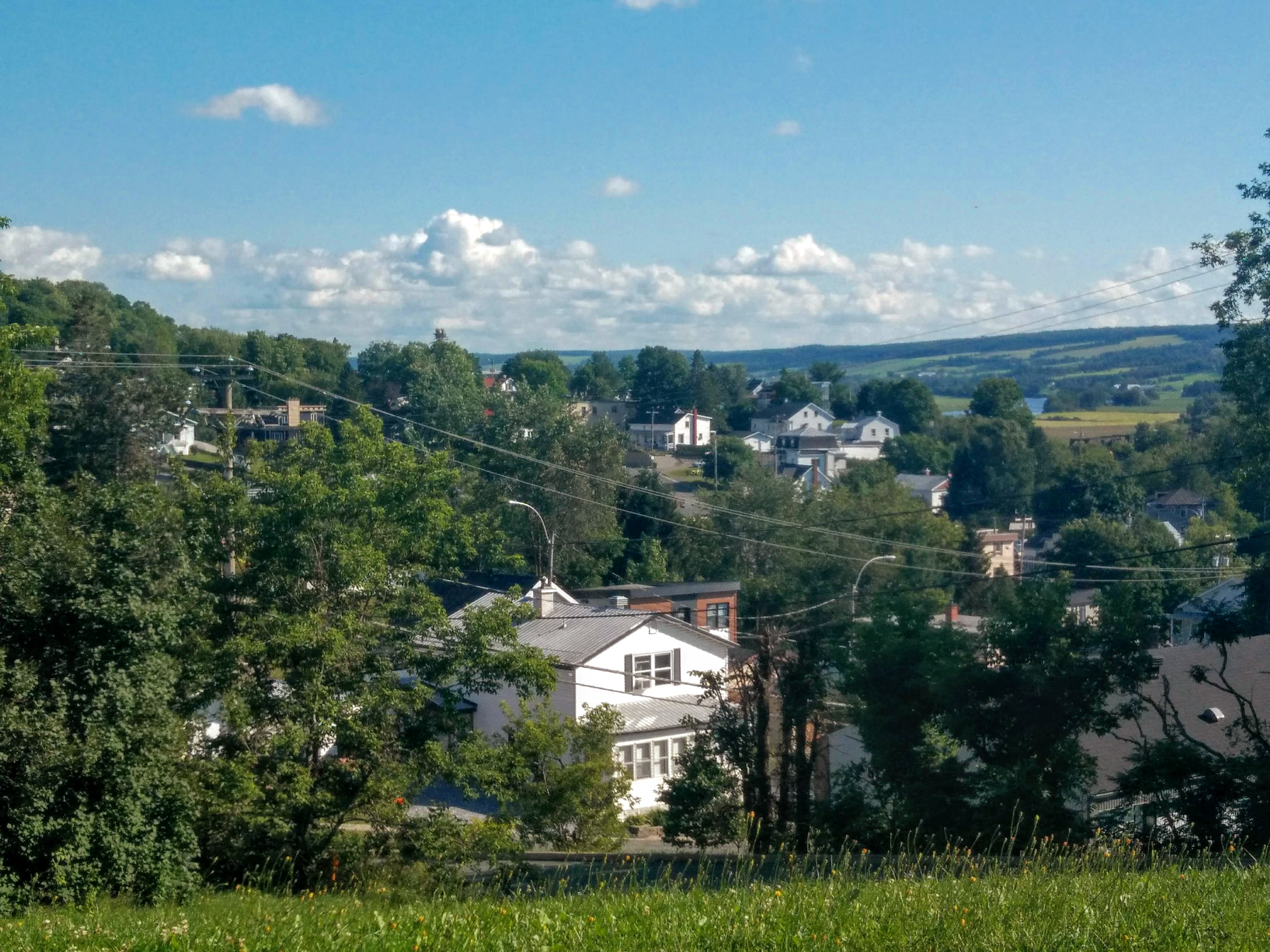 View southward over Vallée-Jonction, Quebec village (L'Enfant-Jésus-en-Haut).